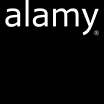 Logo of Alamy